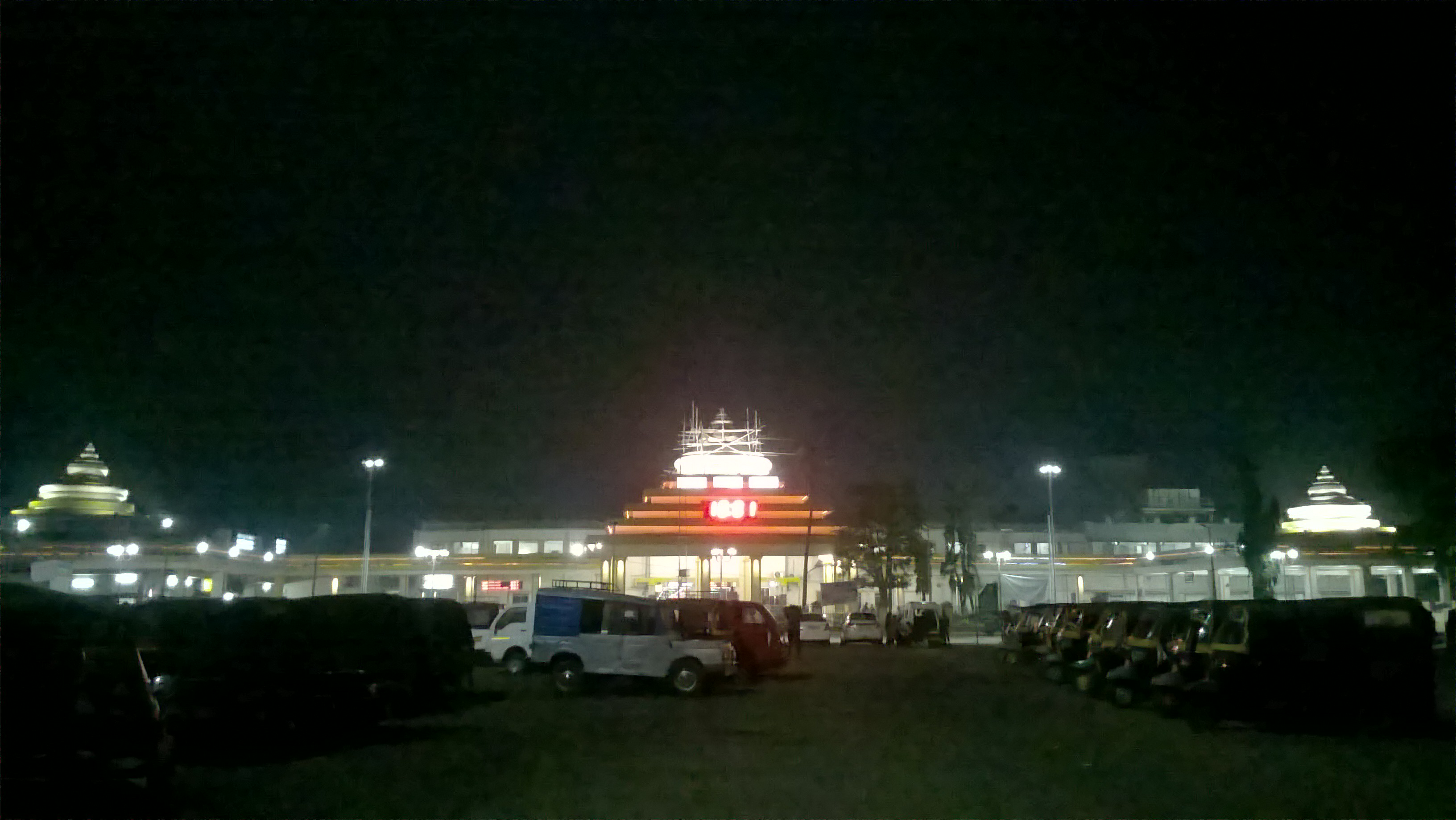 Puri railway station in night